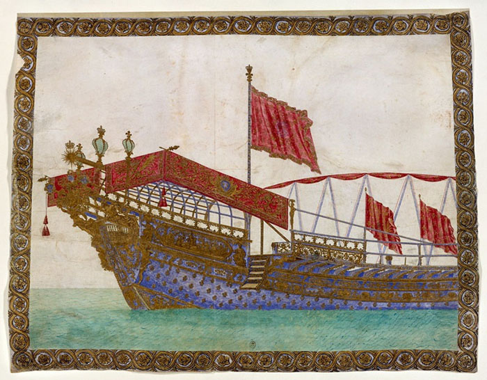 Gouache of a 17th century French royal galley seen from the side. Image from Bibliothèque nationale de France, département des Estampes et de la photographie, Réserve B-7 Bristol F-t 5.